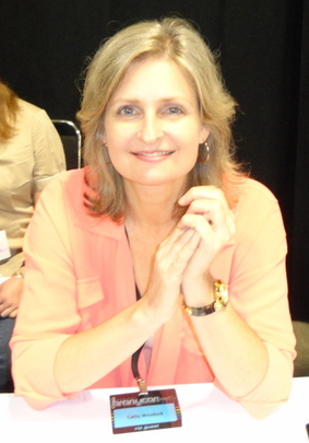 Cathy Weseluck at 2012 Summer BronyCon Cropped from File:Cathy weseluck bronycon summer 2012.jpg